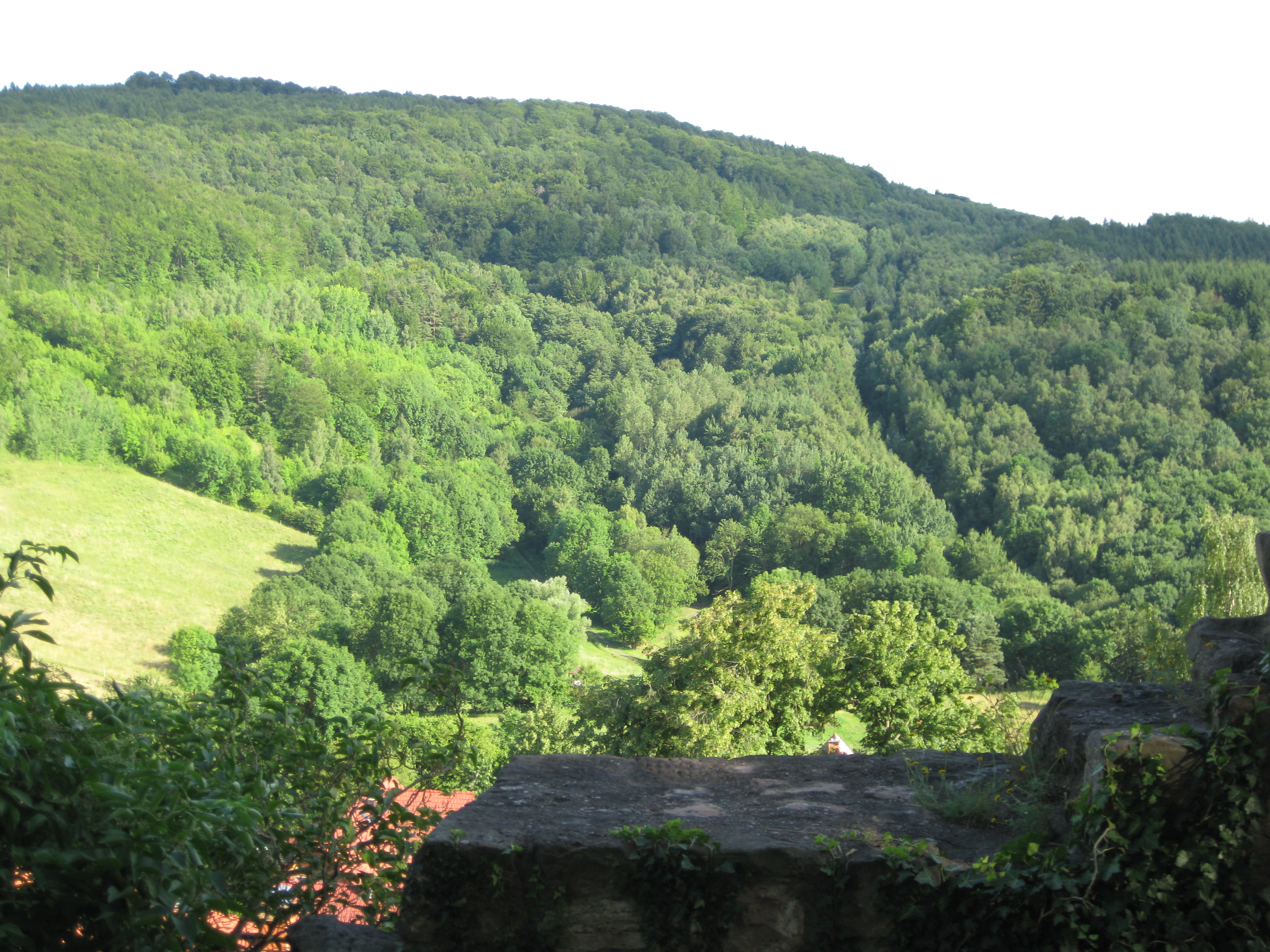 Junkerkuppe to see from the hanstein